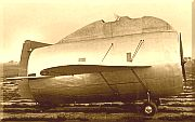 Italian Stipa-Caproni experimental ducted-fan aircraft